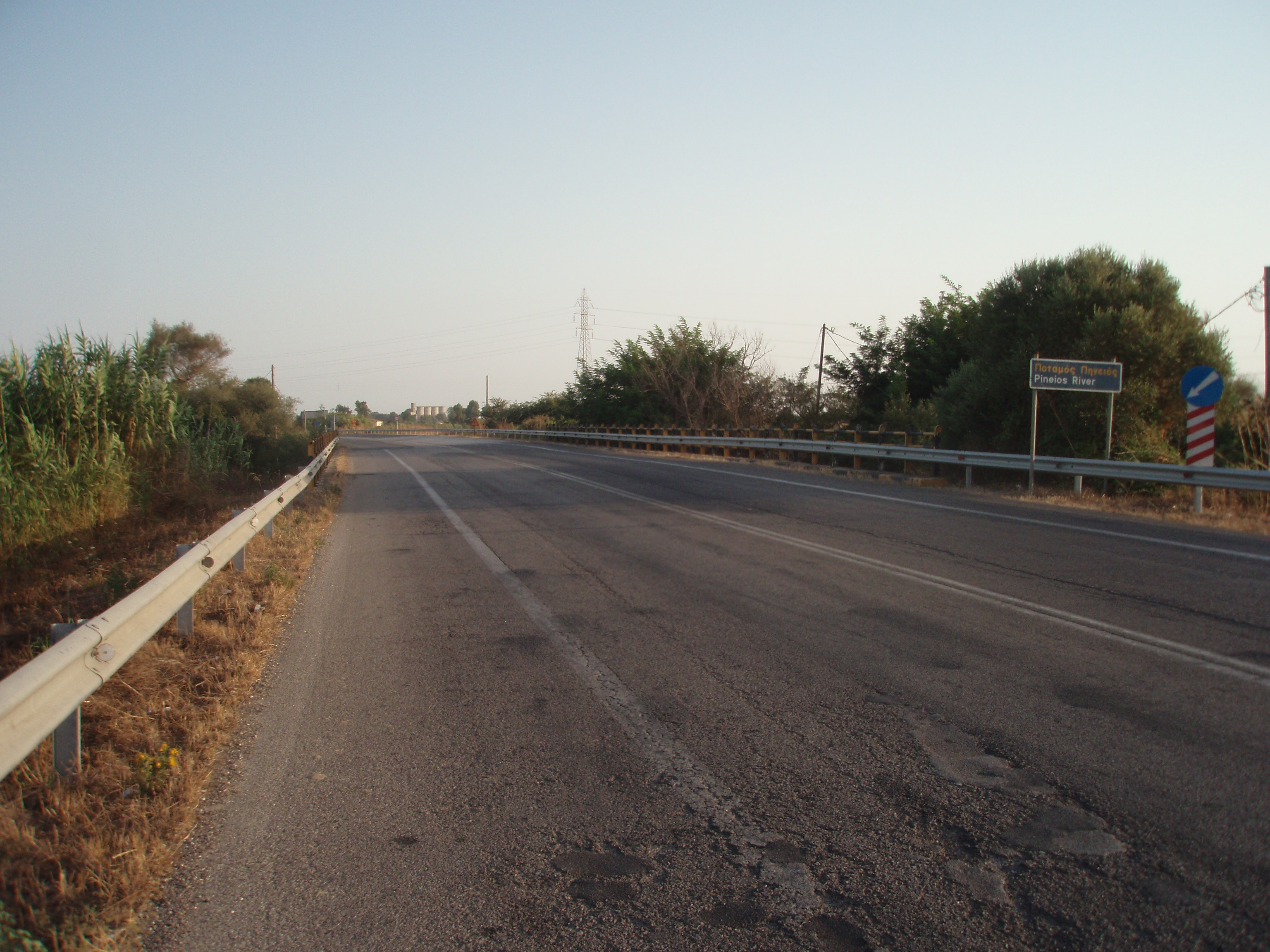 Greek National Road 9, Andravida-Pyrgos section, crossing the river Pinios between Andravida and Gastouni, Peloponnese, Greece.